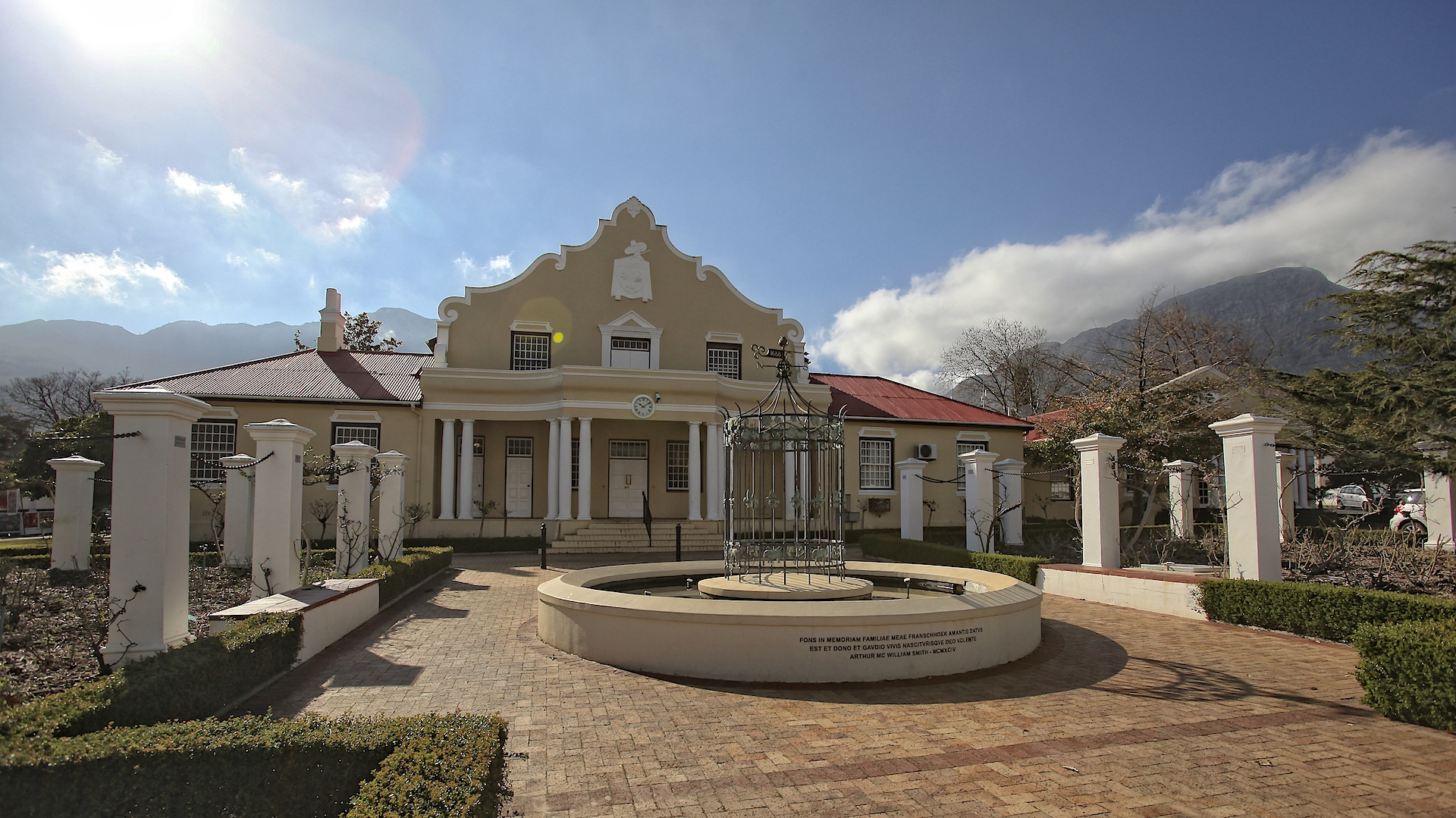 Town Hall, Franschhoek - New This media shows a South African Protected Site with SAHRA file reference New.